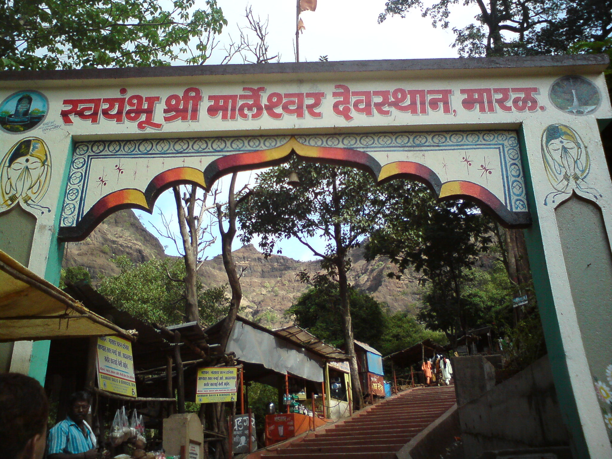 This photo is related to Marleshwar temple. Location - Sangameshwar, Ratnagiri, India.